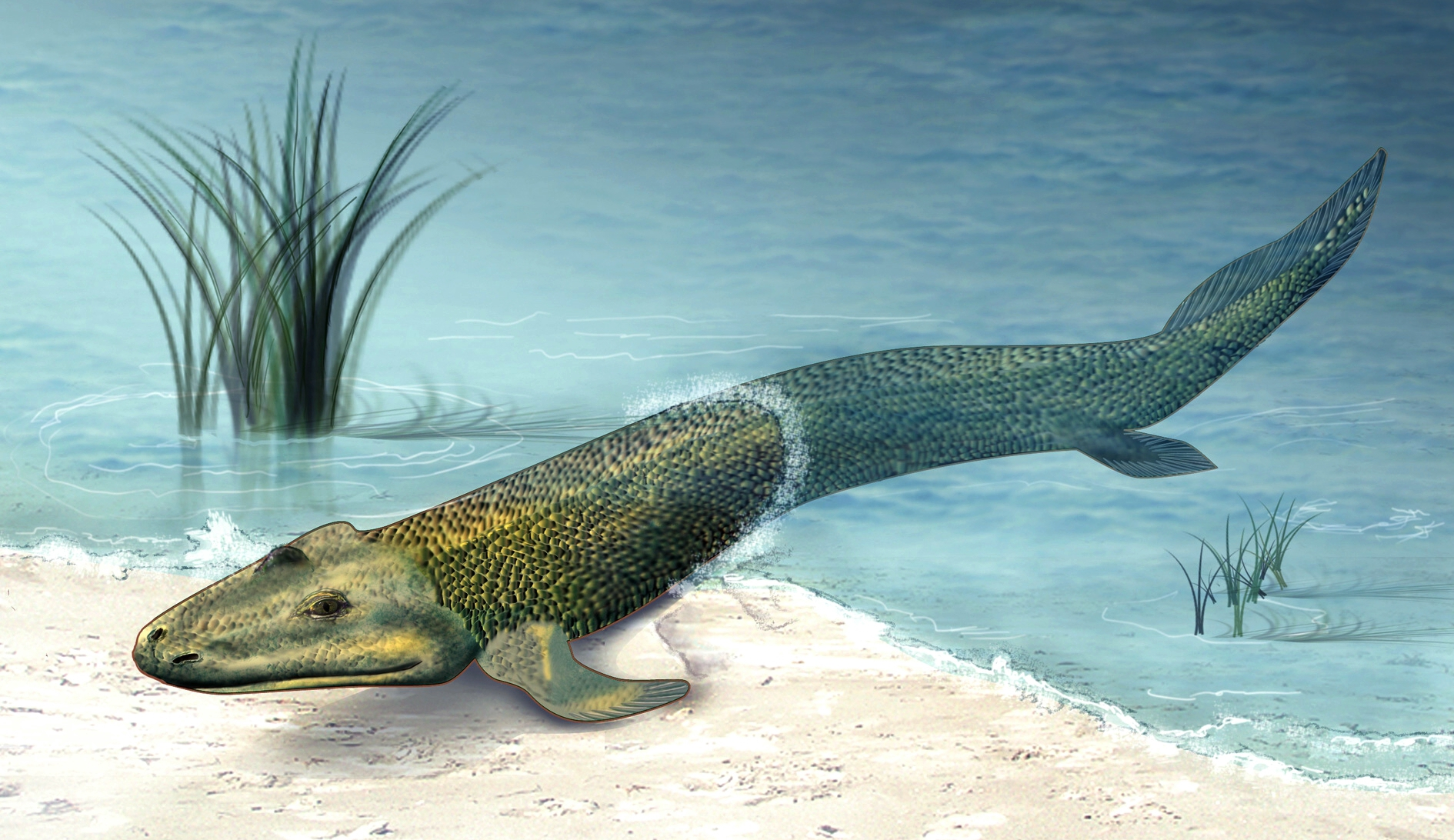 Life restoration of Tiktaalik roseae, a transitional fossil ("missing link") between sarcopterygian fishes and tetrapods from the late Devonian period of North America. Original description: "Fossil fish bridges evolutionary gap between animals of land and sea."